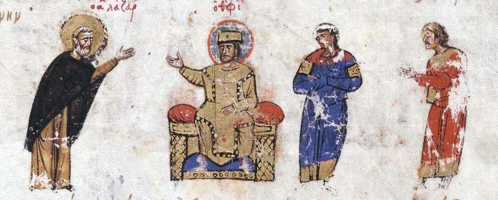 Emperor Theophilos and the monk Lazaros, miniature, Madrid Skylitzes, fol. 49v, detail